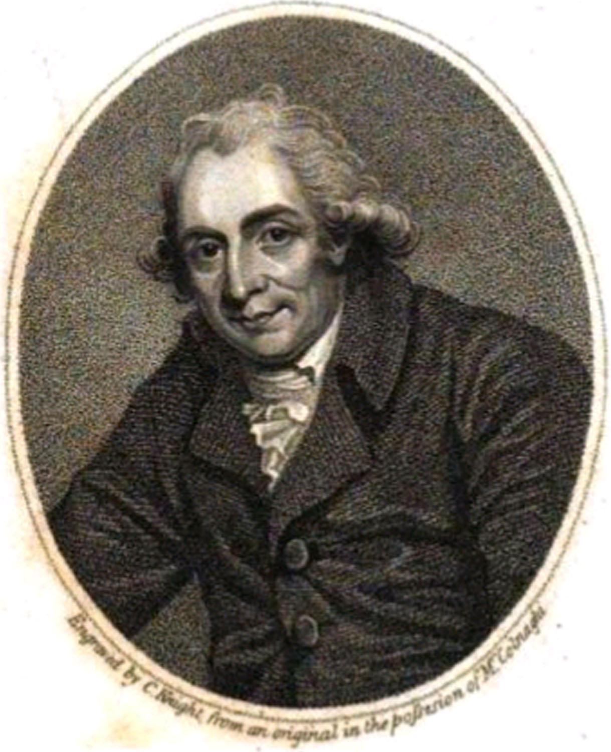 Jesse Ramsden (1735 – 1800), maker of the Ramsden theodolite